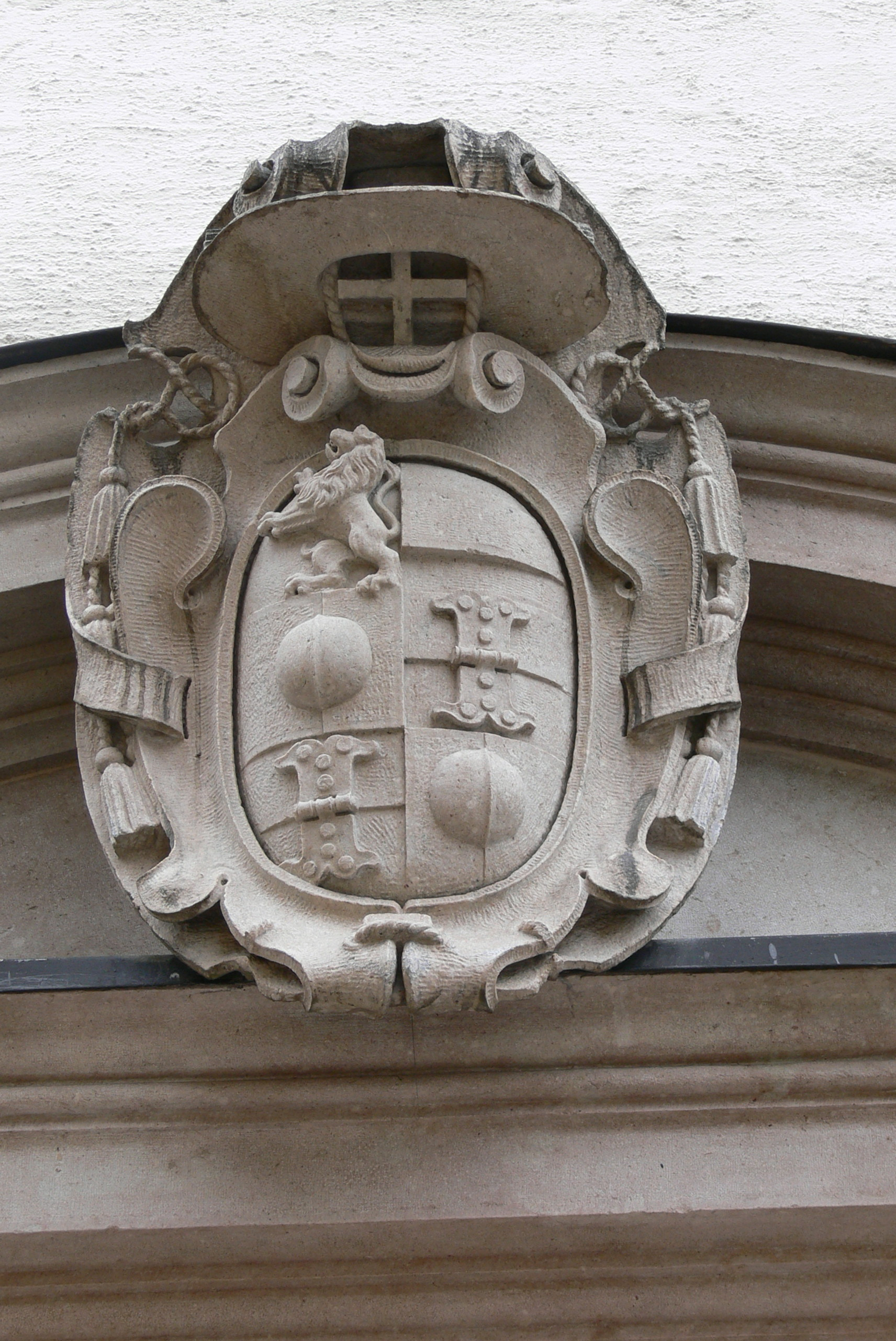 Lofer parish church - Coats of arms of Max Gandolf of Kuenburg, archbishop of Salzburg, above the portal.